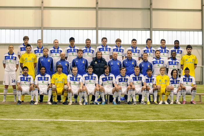 FC Dynamo Kyiv 2010-2011